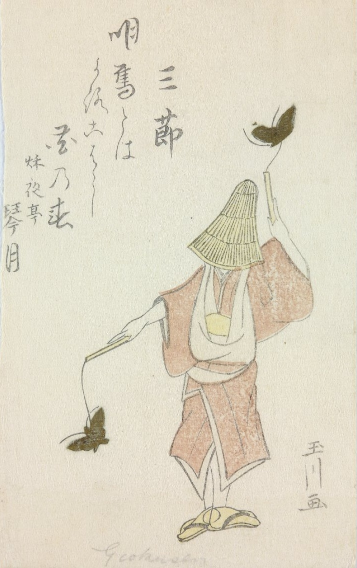 simply surimono by Goykusen, man with poem, format koban tate-e, c. 1800